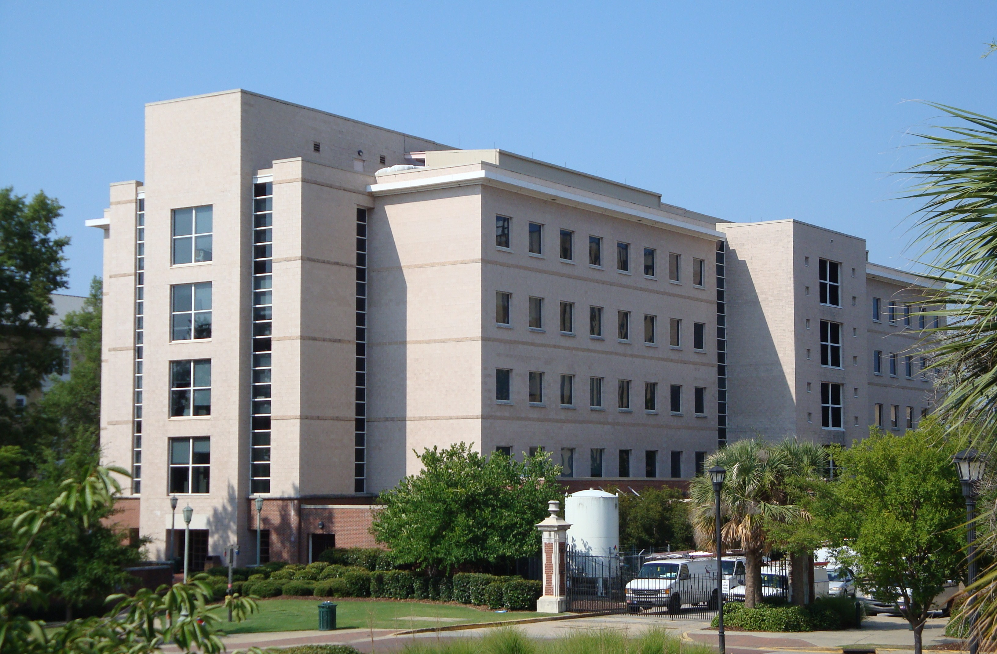 Opened in May 2000, the Graduate Science Research Center at the University of South Carolina is a state of the art facility that houses the university's Department of Chemistry and Biochemistry.